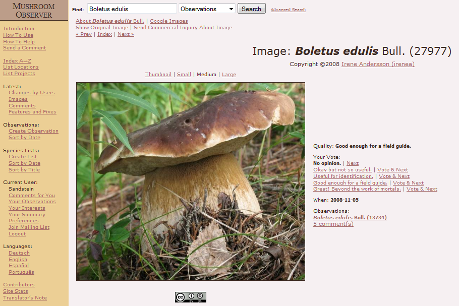 Screenshot of the Mushroom Observer website, showing a user-submitted photograph of Boletus edulis. For more information about this, see the observation page at Mushroom Observer.